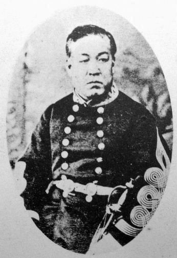 a Japanese man 松本順 (Jun Matsumoto)